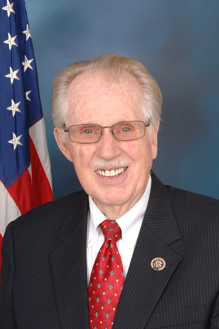 Official portrait of US Rep. Roscoe Bartlett.